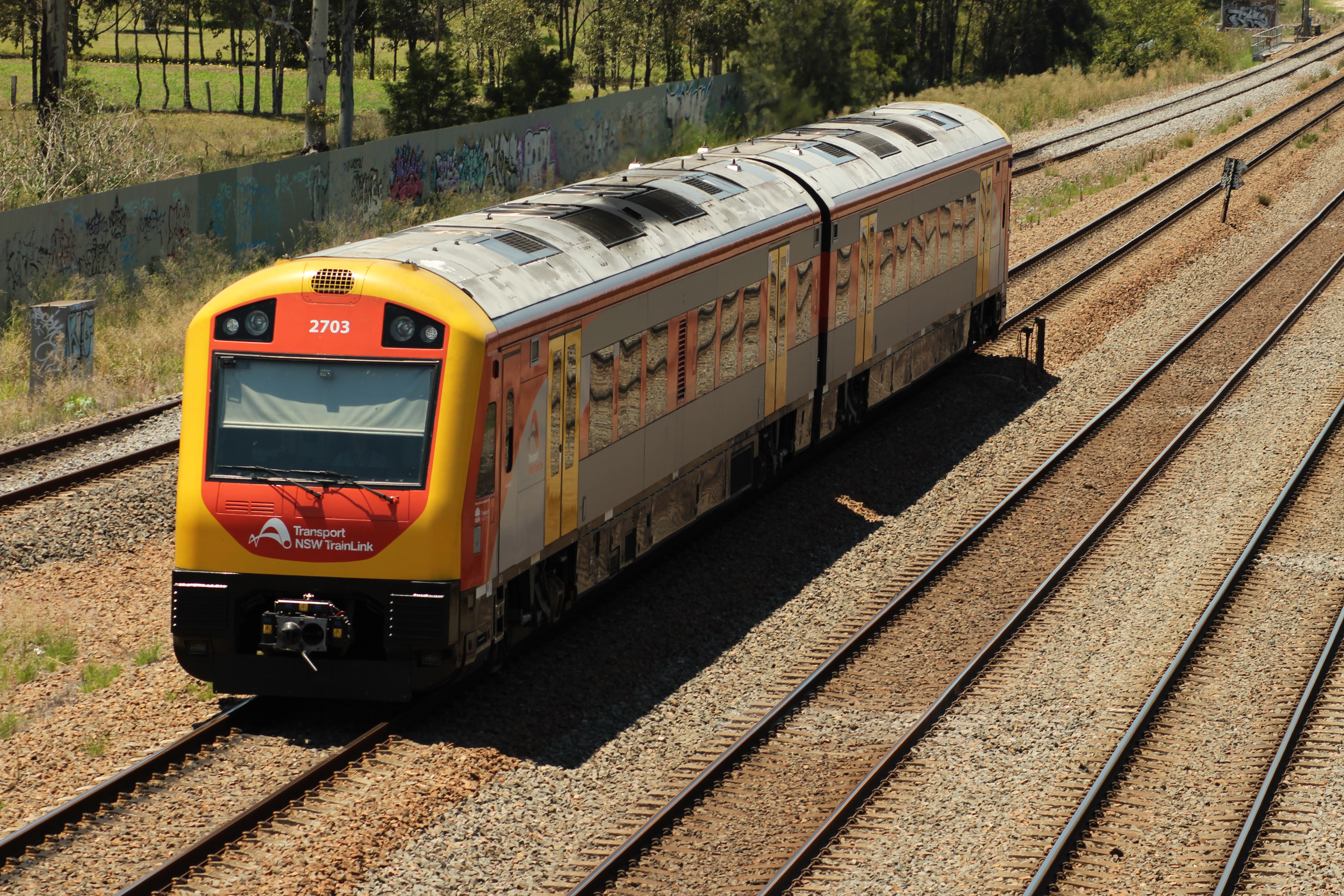 J3 at Metford